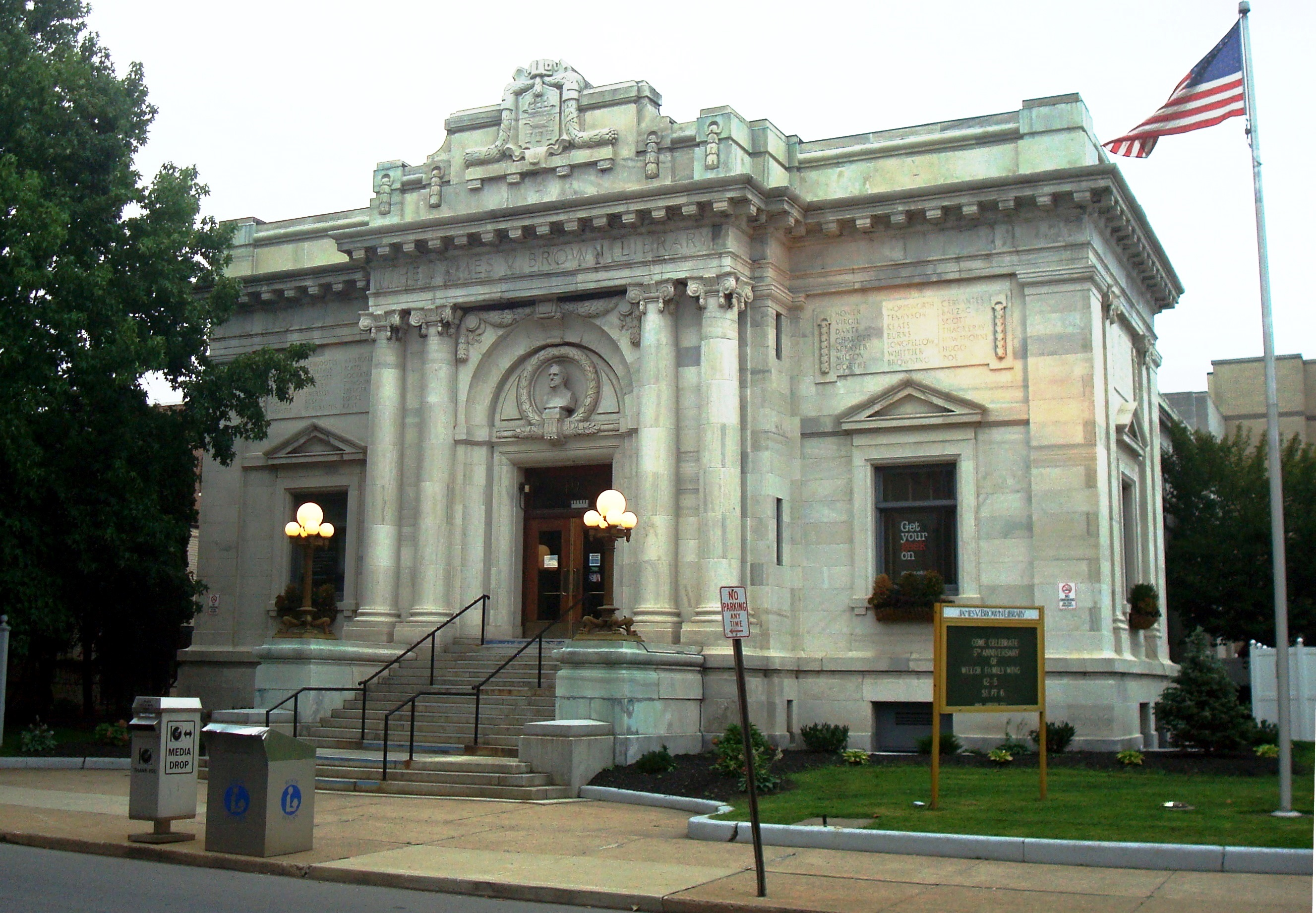 The James V. Brown Library, located at 19 East 4th Street between Market and Mulberry Streets in Williamsport, Pennsylvania was founded in 1907 with funds bequeathed to the city by James VanDuzee Brown, a lumber baron and philanthropist. (Source: [1])